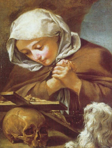 Saint Margaret in penitence